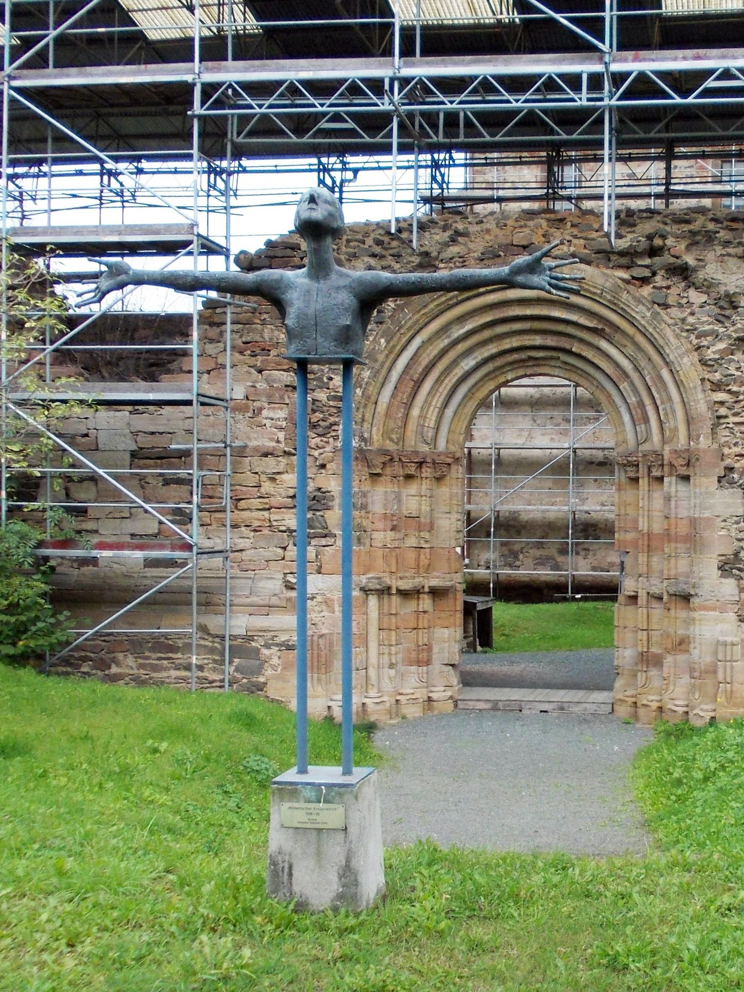 Portal of the monastery church of Mildenfurth (Wünschendorf/Elster, Greiz district, Thuringia) wih sculpture by Volkmar Kühn